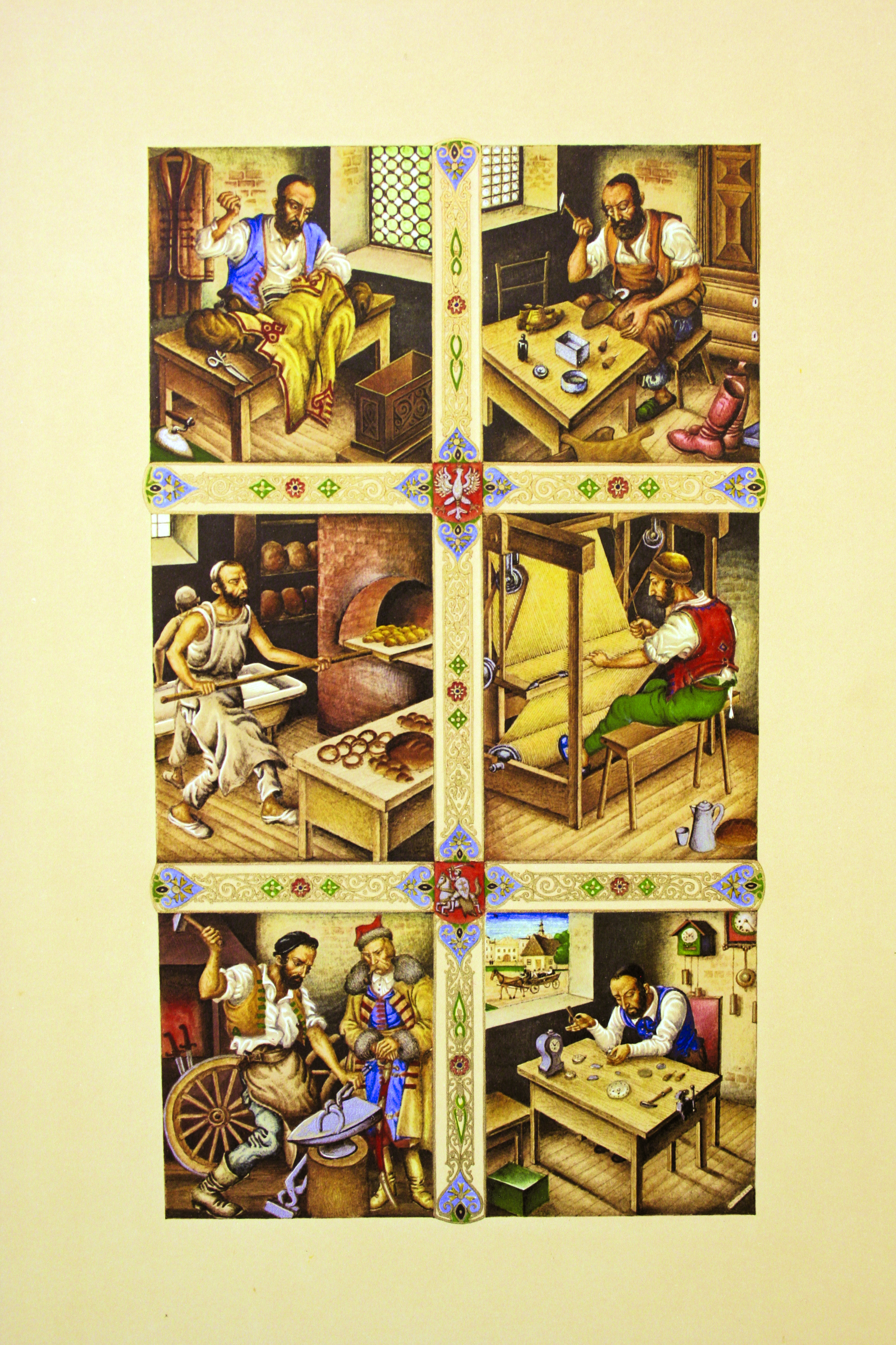 The General Charter of Jewish Liberties, known as the Statute of Kalisz was issued by Boleslaw the Pious, September 8, 1264. The Statute granted wide-ranging and unprecedented legal rights to the Jews of Poland, including freedom of worship, and the right to trade and travel. Arthur Szyk reminded both Poles and Jews in the 20th century of this historic precedent through his seminal work, a visual interpretation of the text Statute of Kalisz (published in 1932), executed in the style of a medieval illuminated manuscript; the 45 paintings were exhibited widely in Poland. This page depicts skilled Jewish craftsmen and tradesmen as active, productive participants in the broader Polish economy.